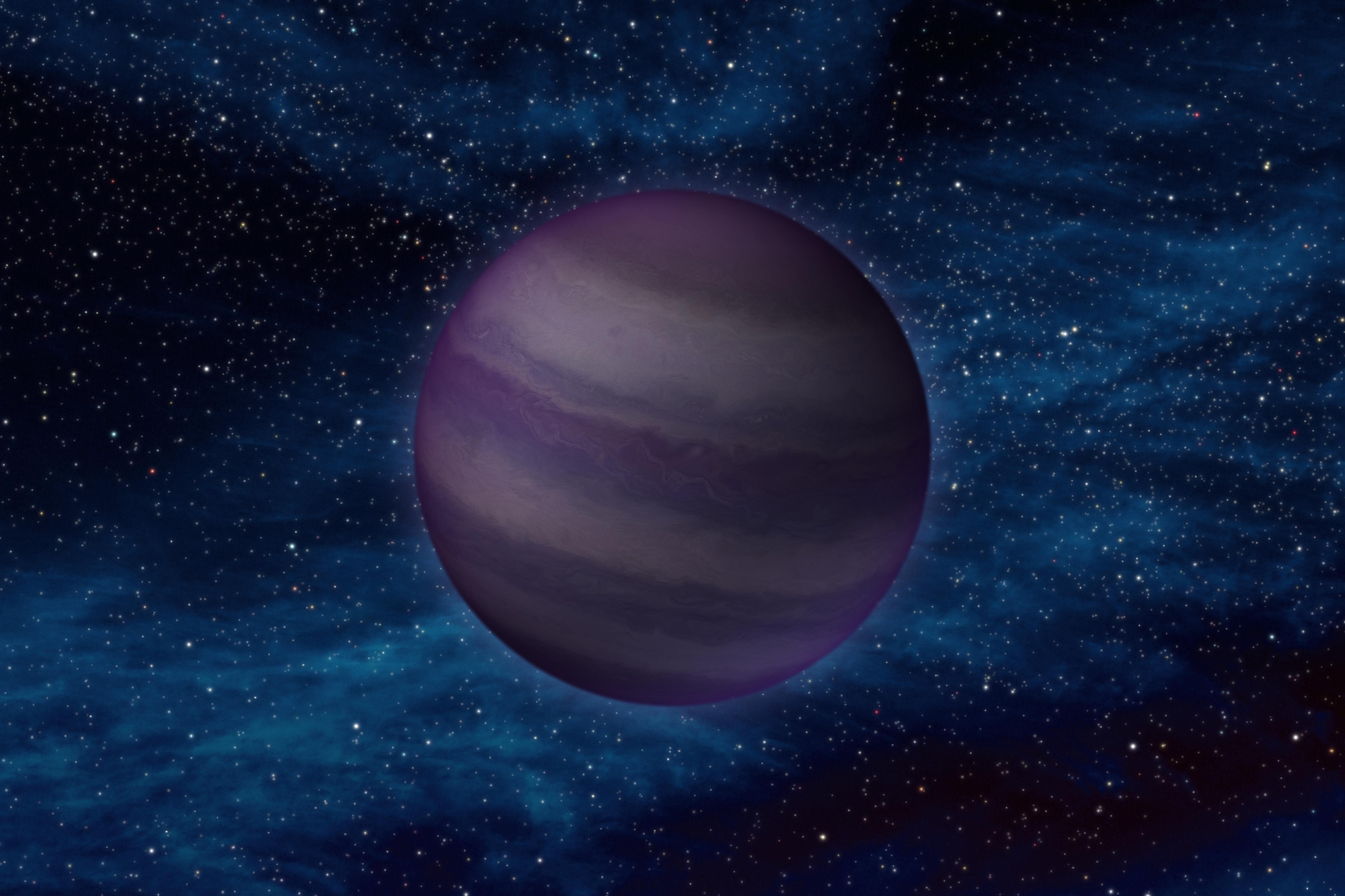 This artist's conception illustrates what a "Y dwarf" might look like. Y dwarfs are the coldest star-like bodies known, with temperatures that can even be lower than that of the human body.